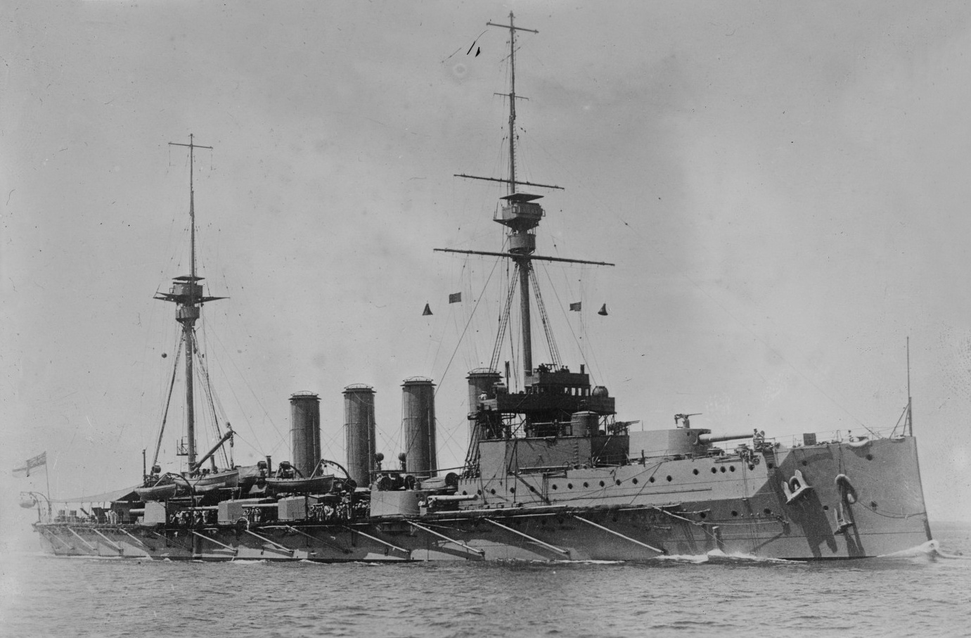 Photograph of British armoured cruiser HMS Achilles.